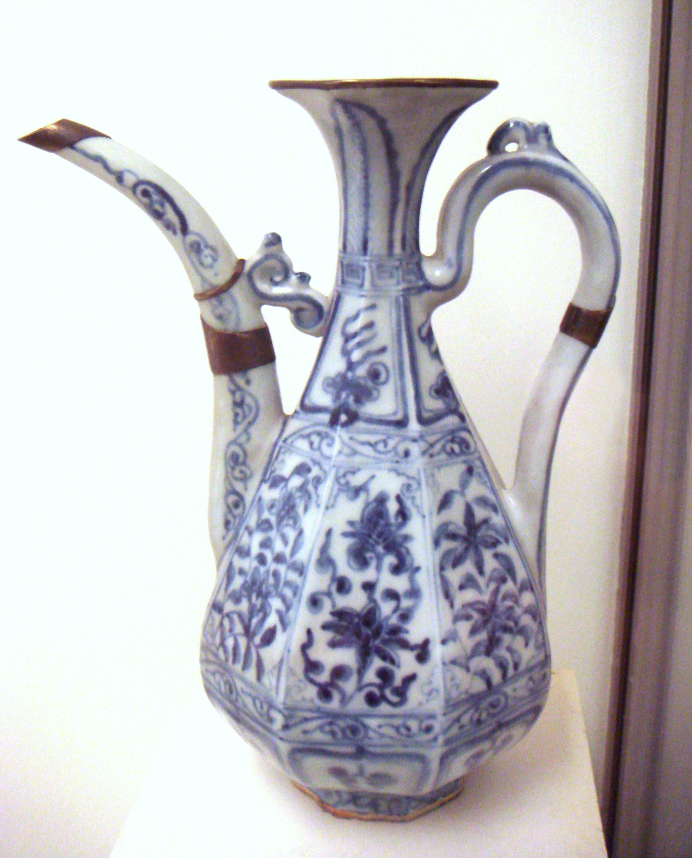 Early_blue_and_white_ware_circa_1335_Jingdezhen